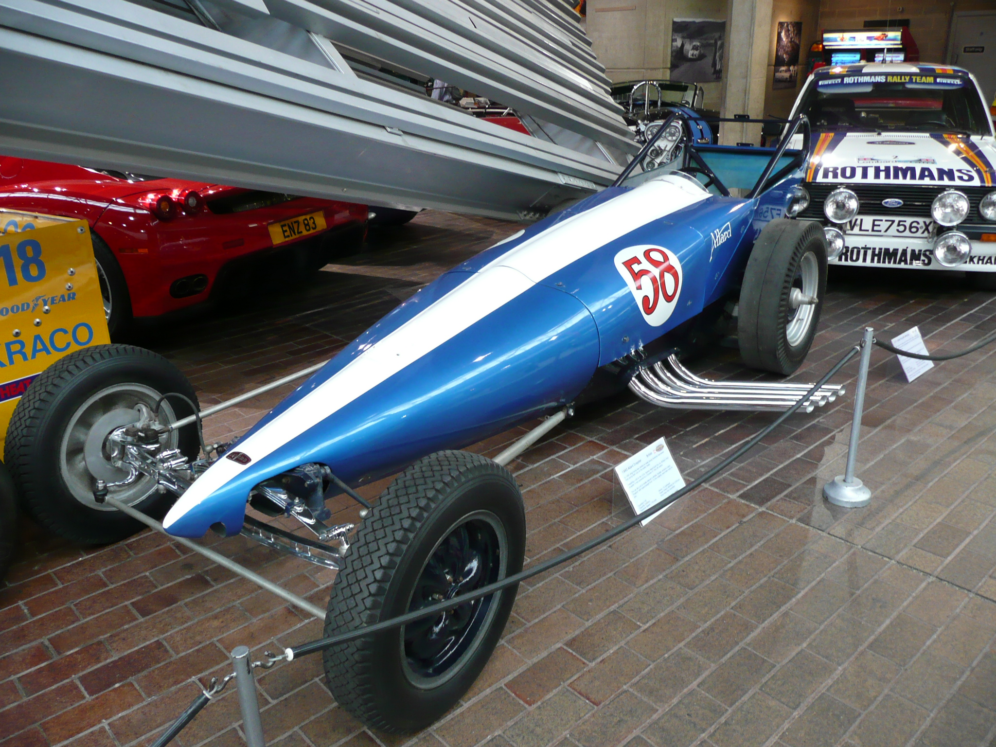 1960 Allard Slingshot Dragster, National Motor Museum in Beaulieu.